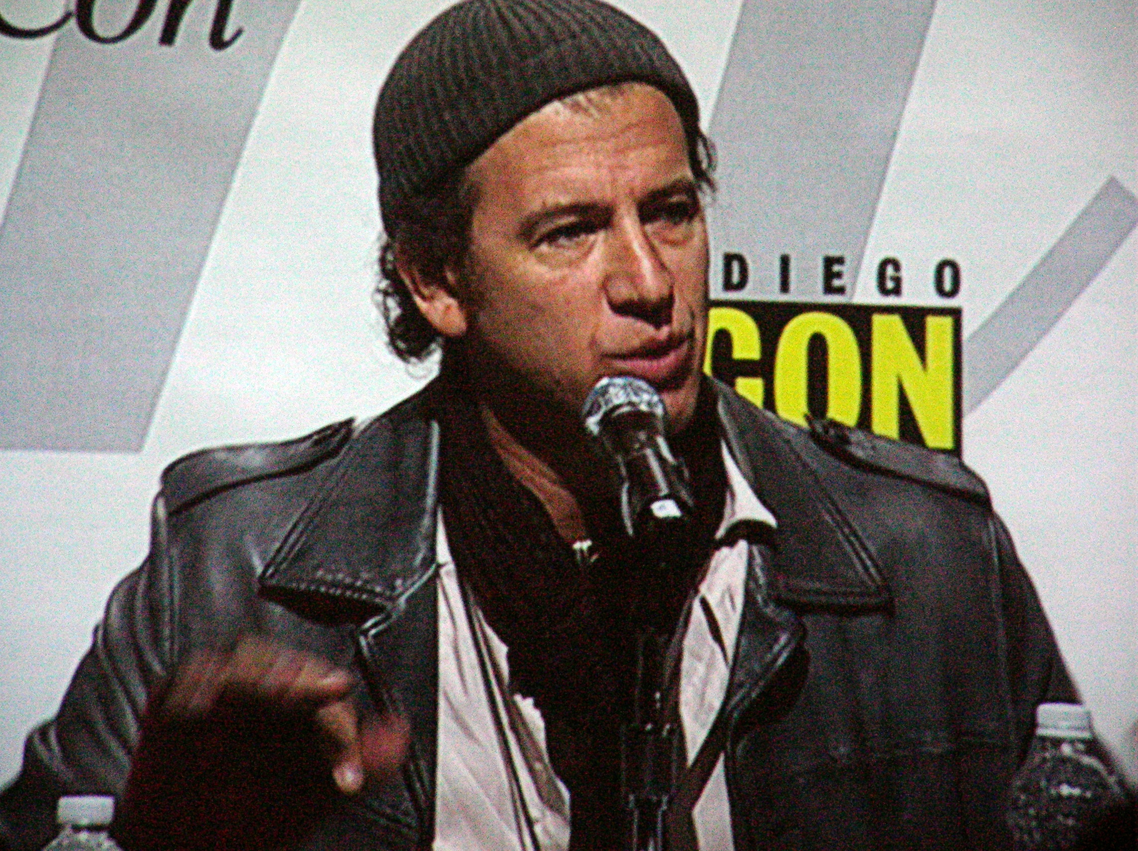 Scott Rosenberg, one of the producers of the TV series Happy Town, at a panel promoting the series at WonderCon 2010.